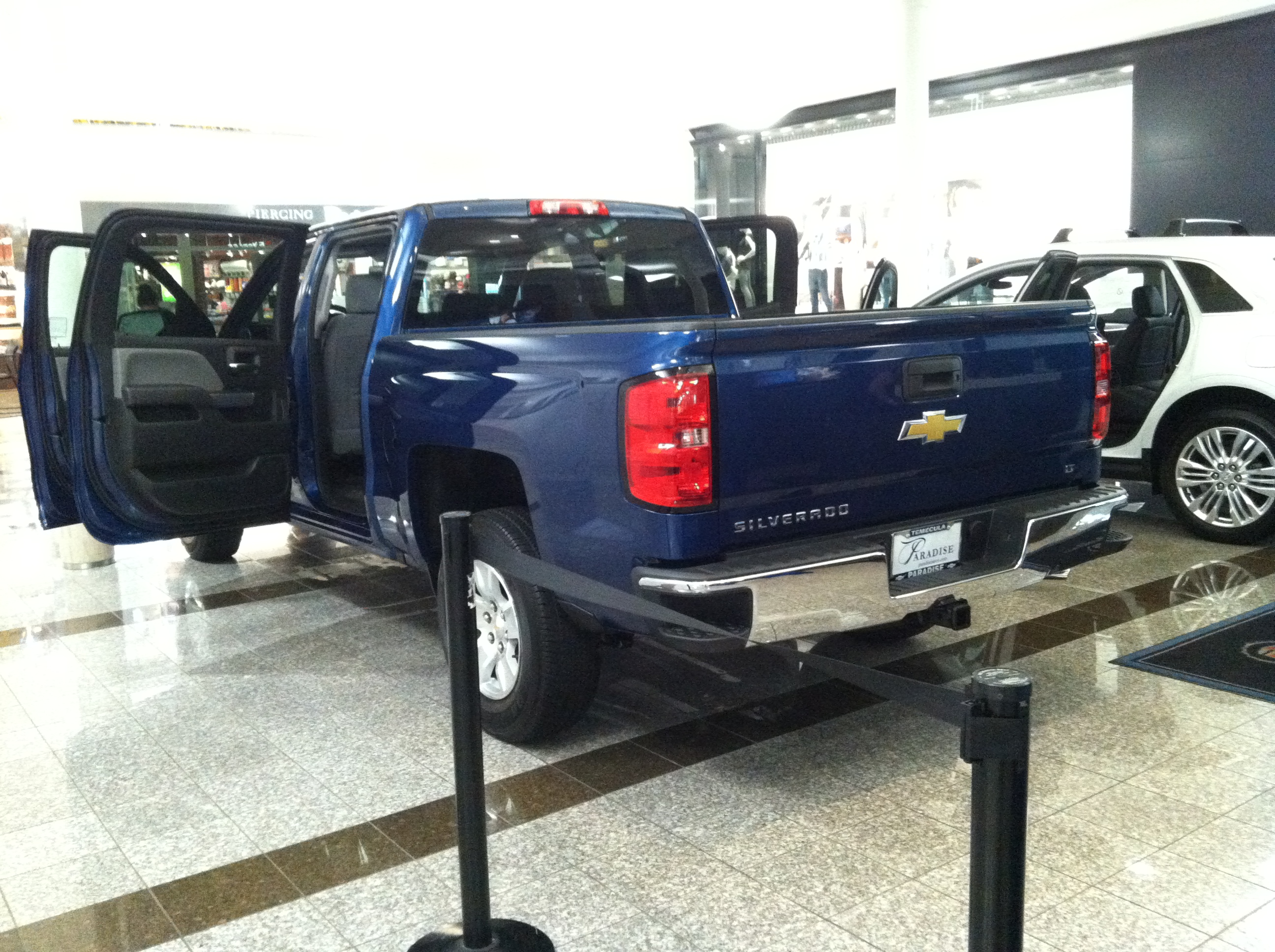 Chevrolet Silverado 2017 Pickup Truck Side Back.